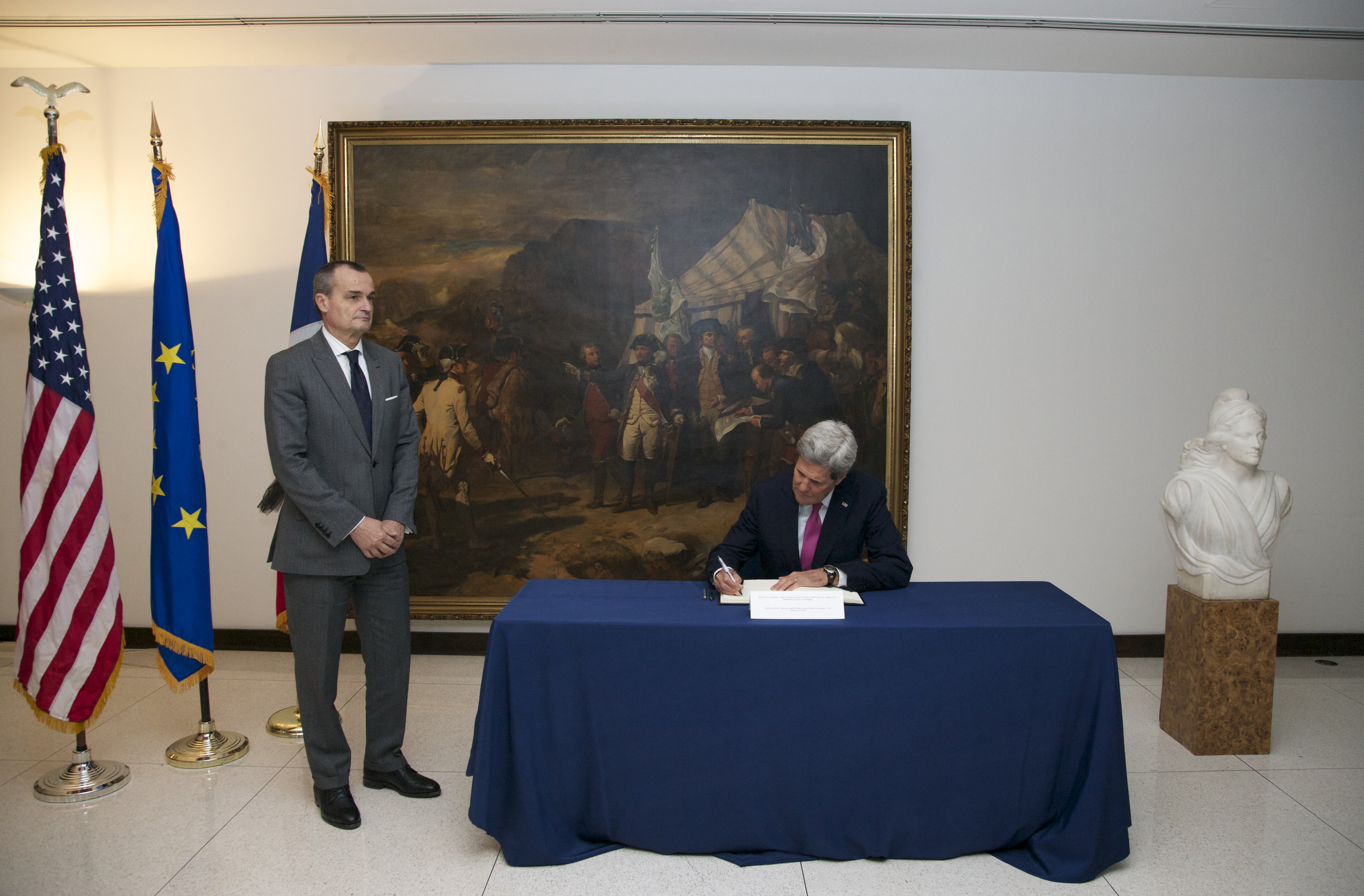 U.S. Secretary of State John Kerry signs a book of condolences for the attack in Paris, at the French Embassy in Washington, D.C., January 9, 2015. [State Department photo/ Public Domain]